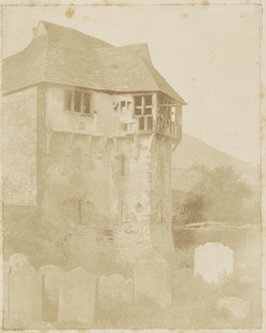 Stekesley Castle (sic); Attributed to Amelia Elizabeth Guppy (British, 1808 - 1886); Shropshire, England; about 1854; Salted paper print; 21.6 x 17.2 cm (8 1/2 x 6 3/4 in.); 84.XP.728.29